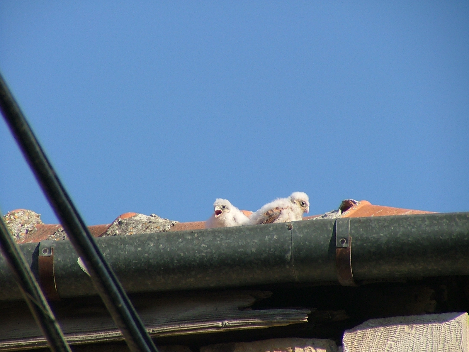 Two Lesser Kestrel (Falco naumanni) chicks on the roof of a house in the neighborhood of Mosrara, Jerusalem.